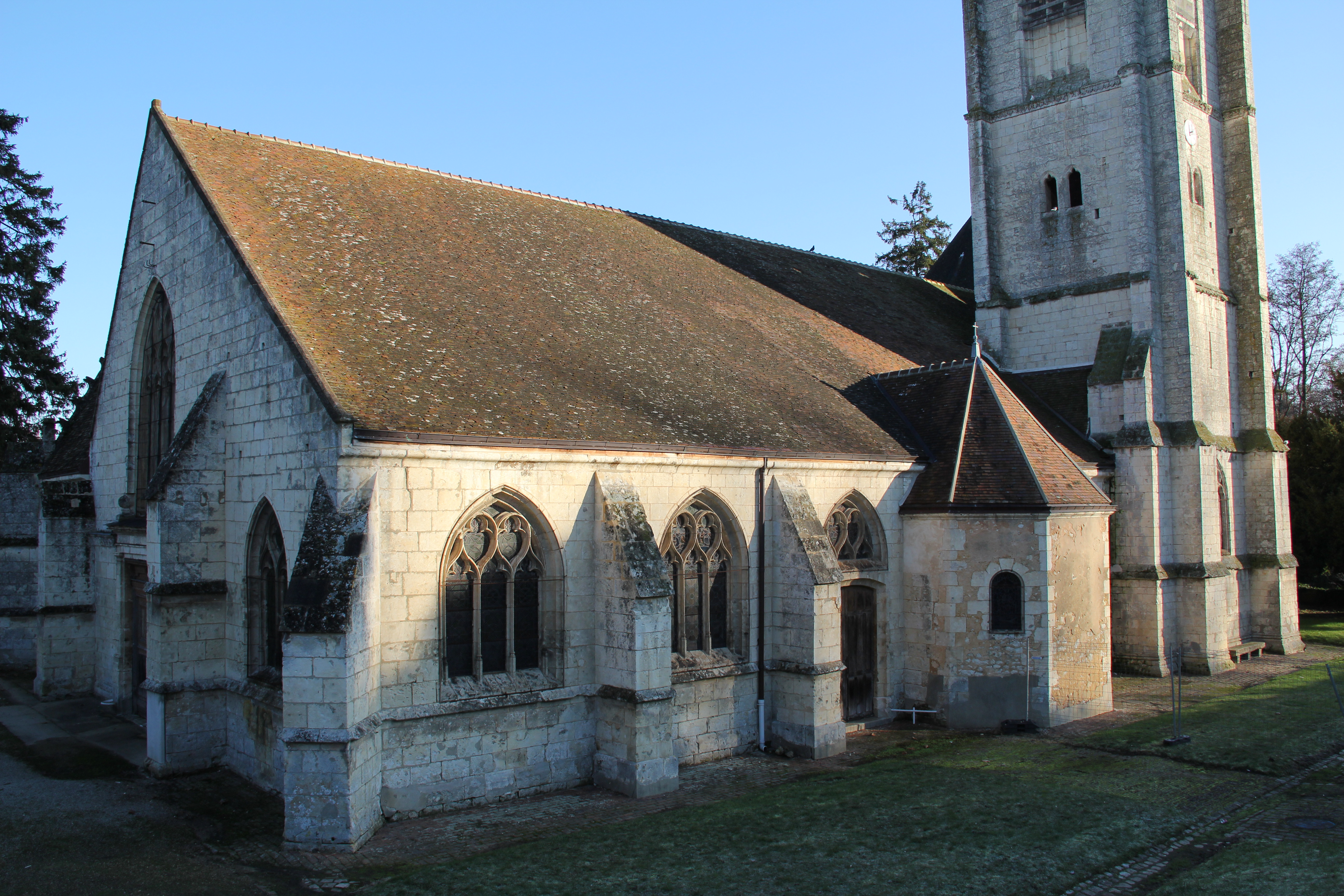 Saint-Hilaire Roman catholic church, in Nogent-le-Rotrou, Eure-et-Loir, France.